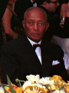 State Dining Room, White House, Washington, DC. Seated L-R: Hon. Nicholas Katzenbach, Mrs. Robert McNamara, Emperor Haile Selassie, Lady Bird Johnson, H.E. Ras Mesfin Sileshi, Chief Justice Earl Warren